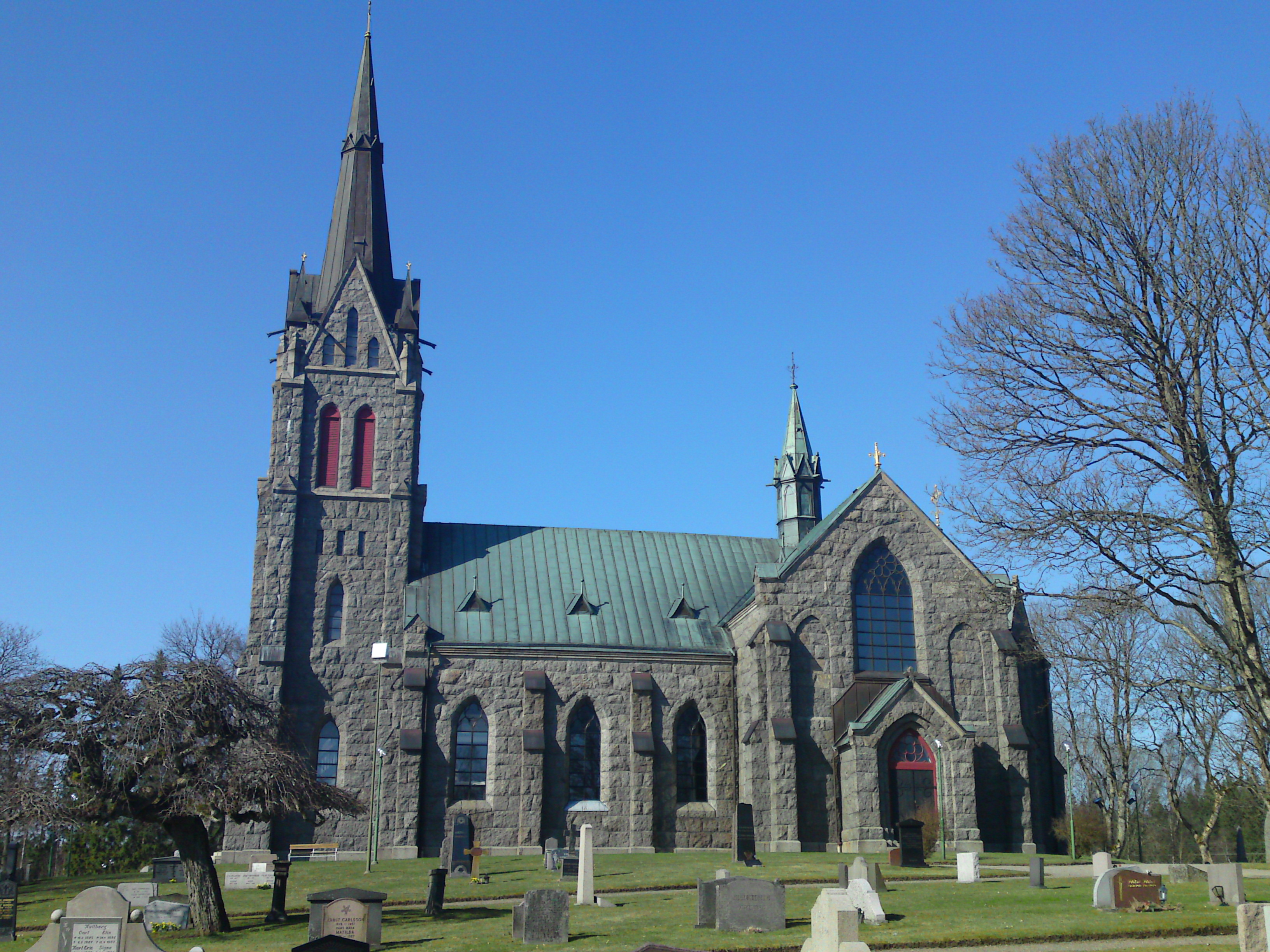 Vallsjö "new" church